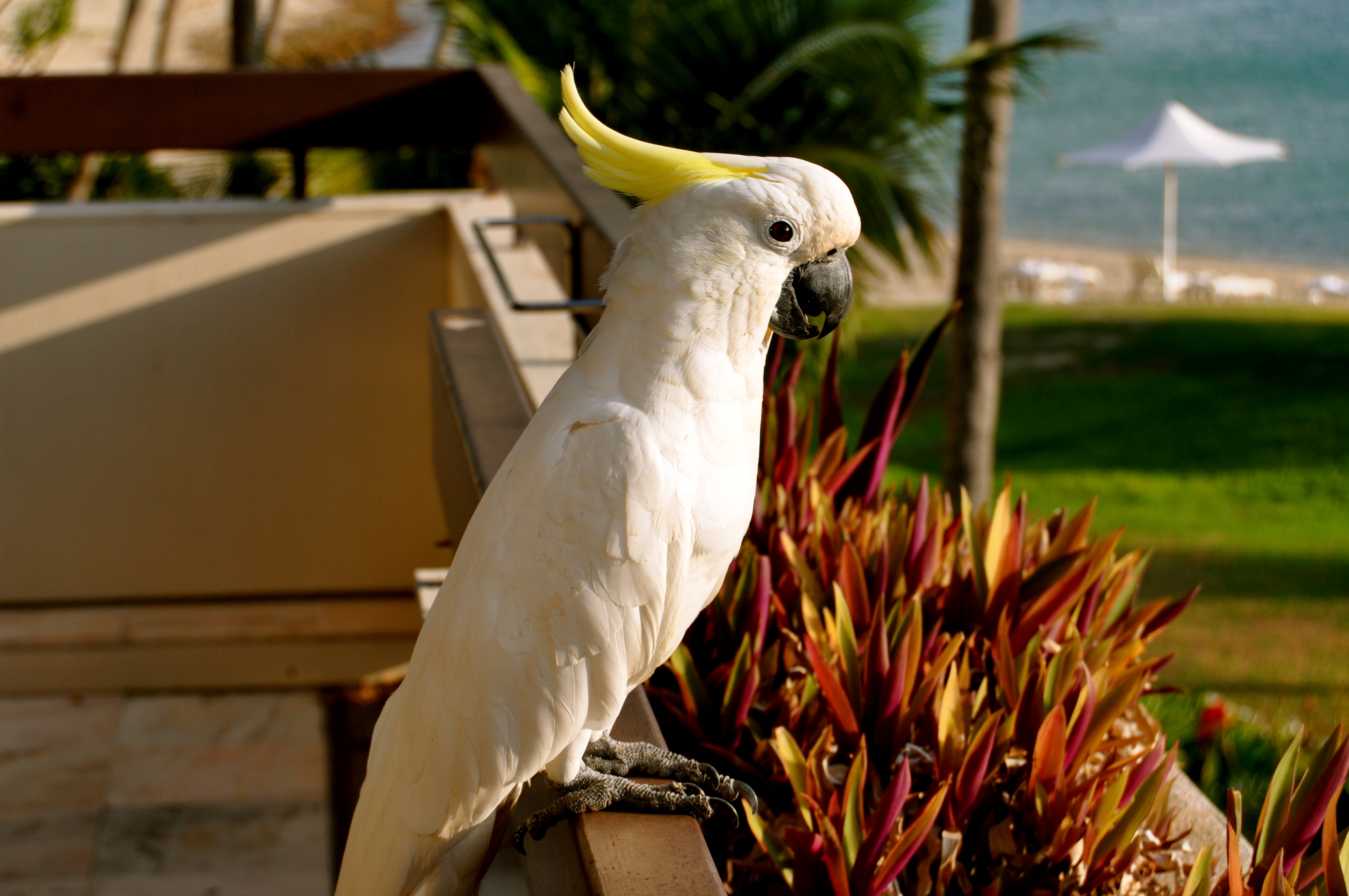 Sulphur-crested Cockatoo on Hayman Island, Australia.